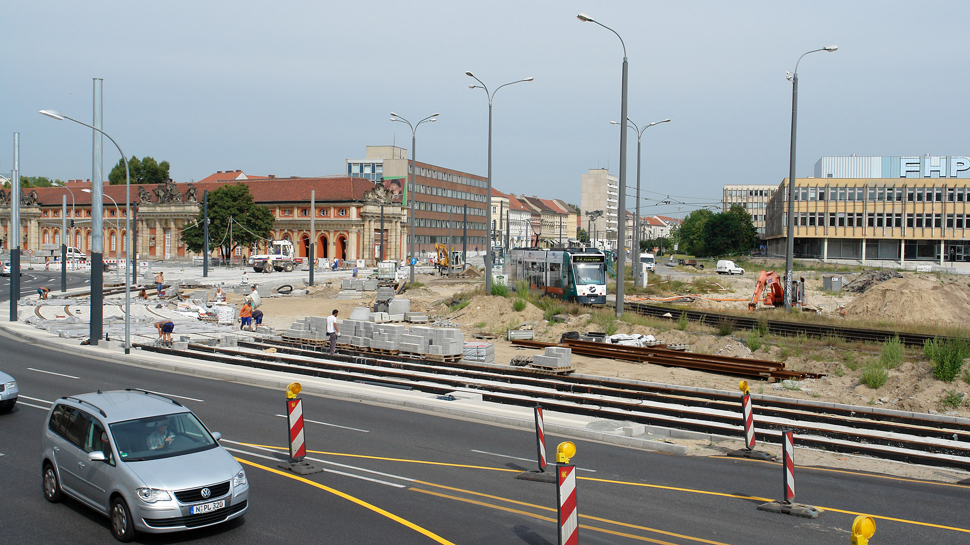 Combino Tram (Car 407) in Potsdam, Germany at the Stop Alter Markt